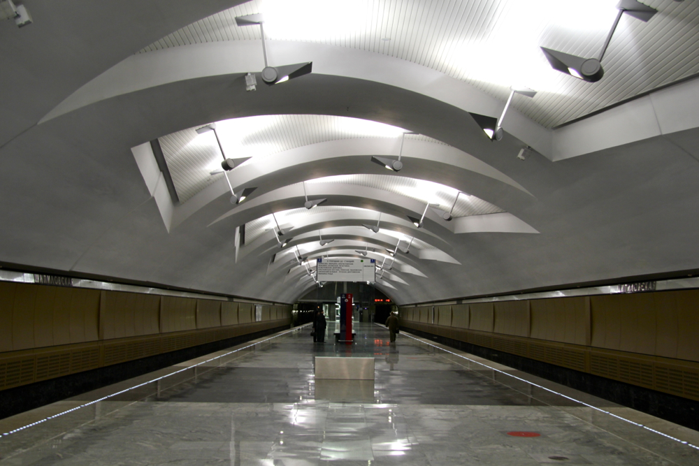 Lyublinsko-Dmitrovskaya Line. Moscow Metro. The movie about Borisovo, Shipilovskaya and Zyablikovo stations.